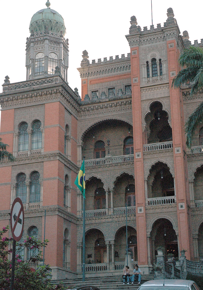 Palace of the Oswaldo Cruz Foundation, Rio de Janeiro